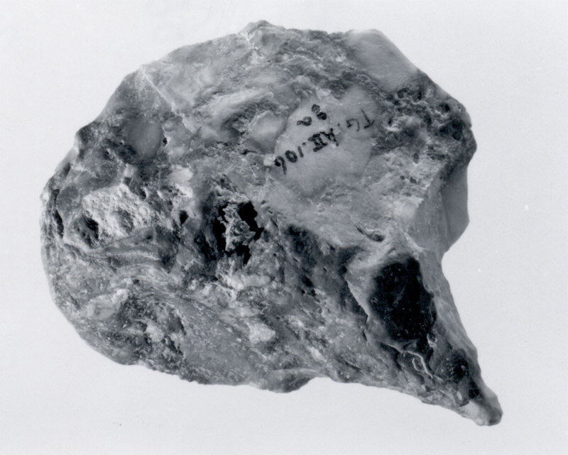 Ghassulian; Awl; Stone-Implements